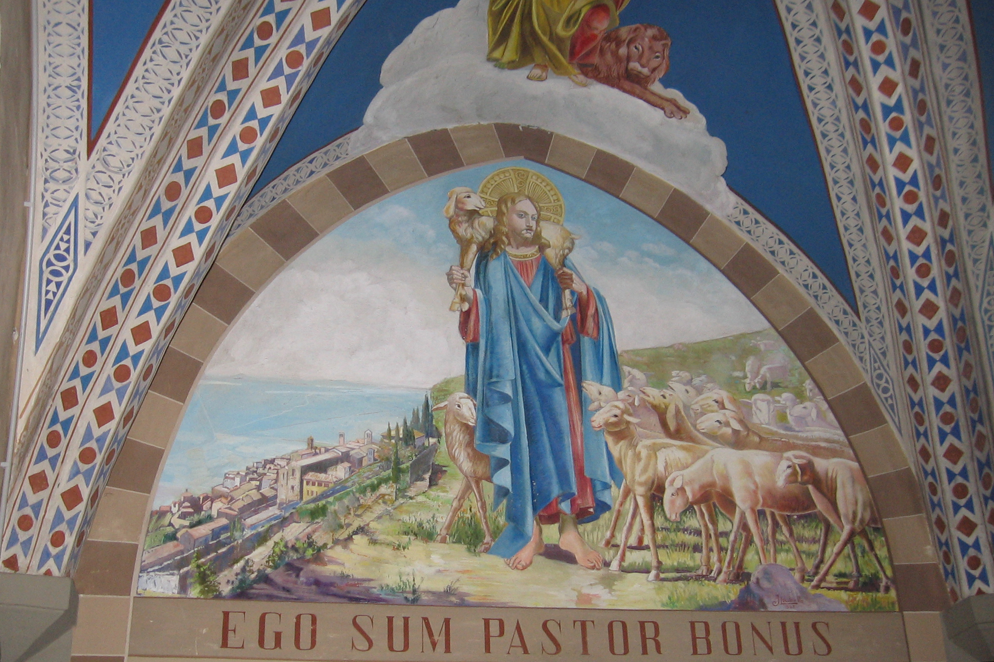 Fresco in the Bishop's chapel located in Cortona depicting Jesus the good shepherd